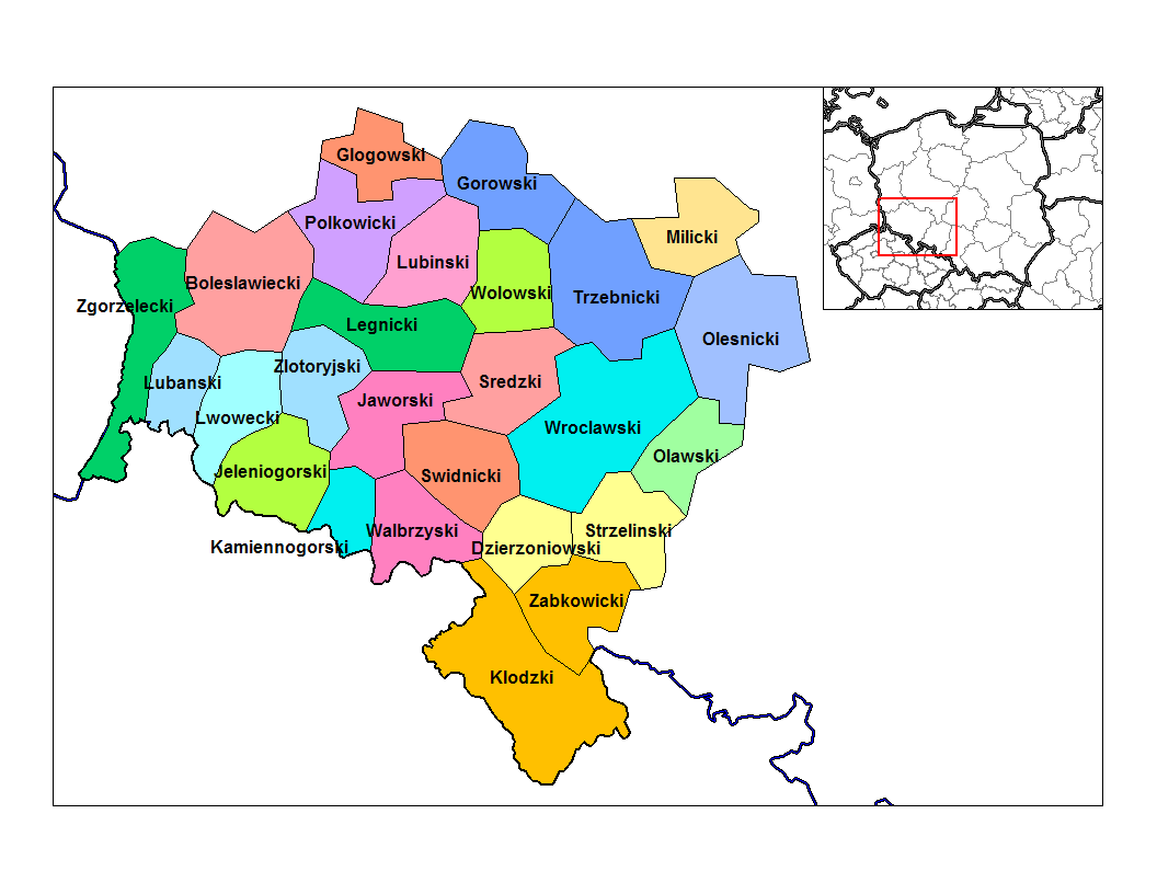 Map of the "powiat ziemski" (land counties) without "powiat grodzki" (Independent cities) of Lower Silesian voivodeship (Województwo dolnośląskie) in Poland. Created by Rarelibra 21:47, 2 January 2007 (UTC) for public domain use, using MapInfo Professional v8.5 and various mapping resources.